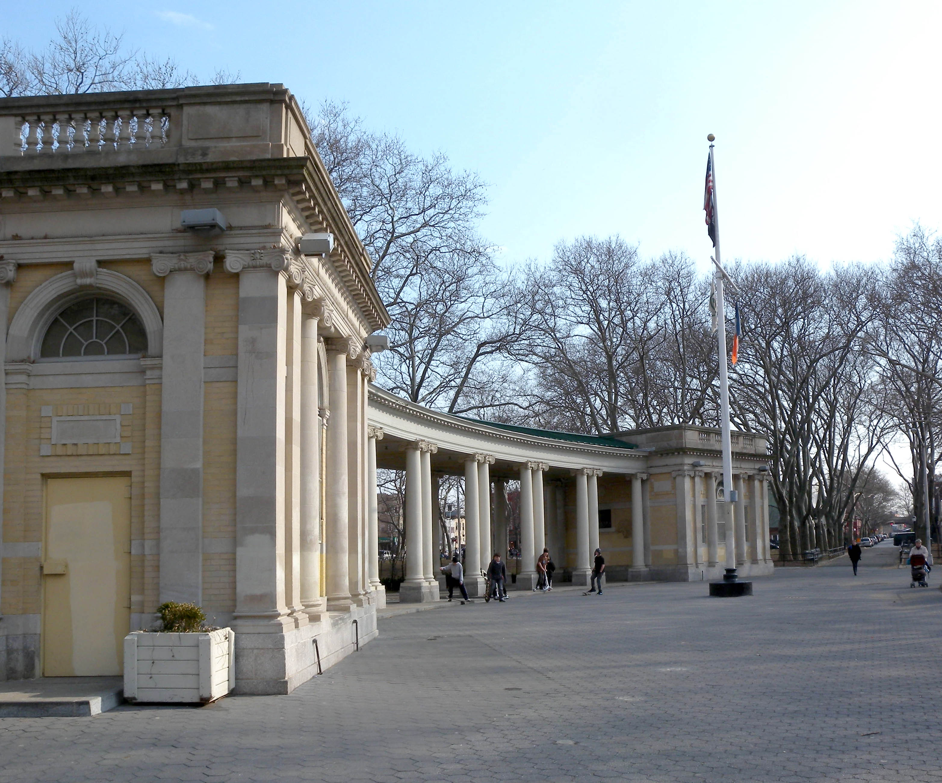 Looking south at Winthrop Pavilion on a sunny early afternoon. See also File:Winthrop Shelter Pavilion jeh.JPG.